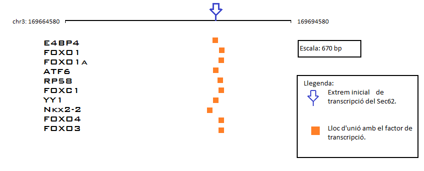 Transcription factors that regulate sec62 gene.